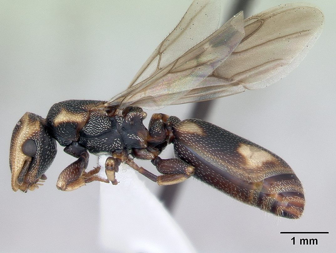 Profile view of ant Cephalotes jheringi specimen casent0173684.